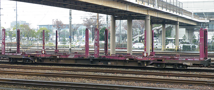 JR-Freight KoKi71 freight wagon at Kasadera Station in Nagoya, Japan